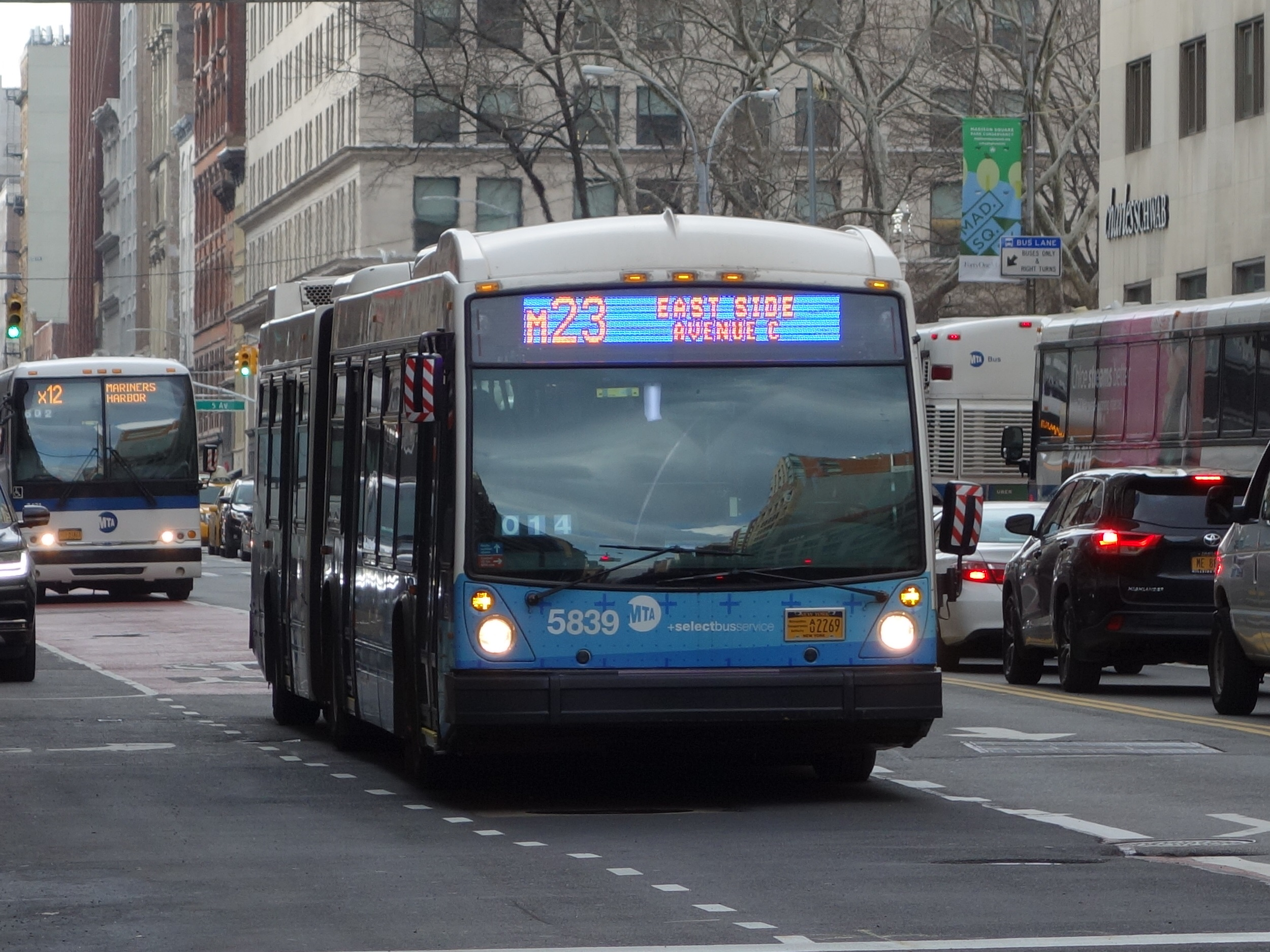 An East Side-bound M23 SBS bus at 23rd Street and Park Avenue South in Gramercy Park / Flatiron District, Manhattan.